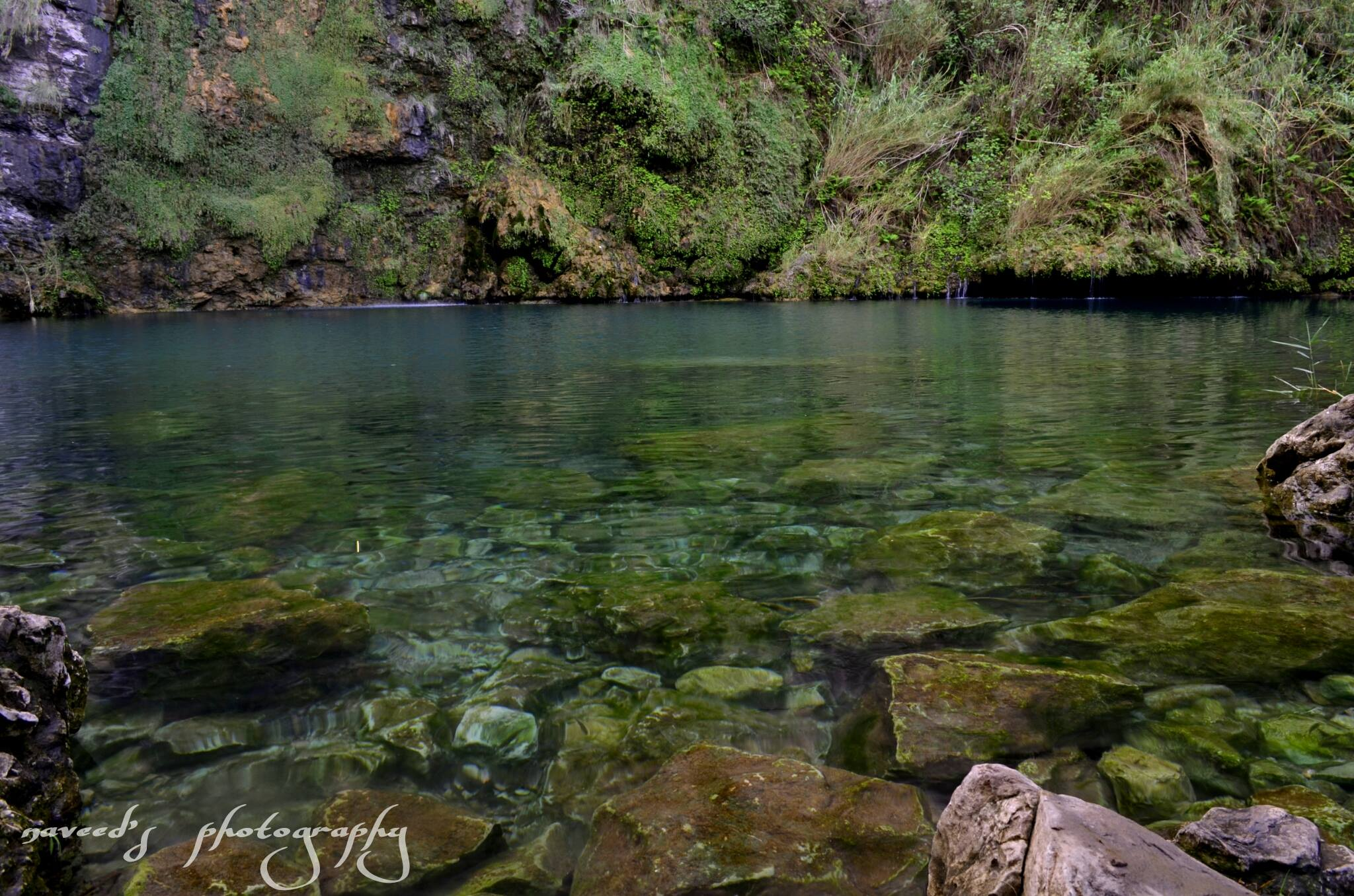 Beautiful Natural Swaik Lake at Kallar Kahar.